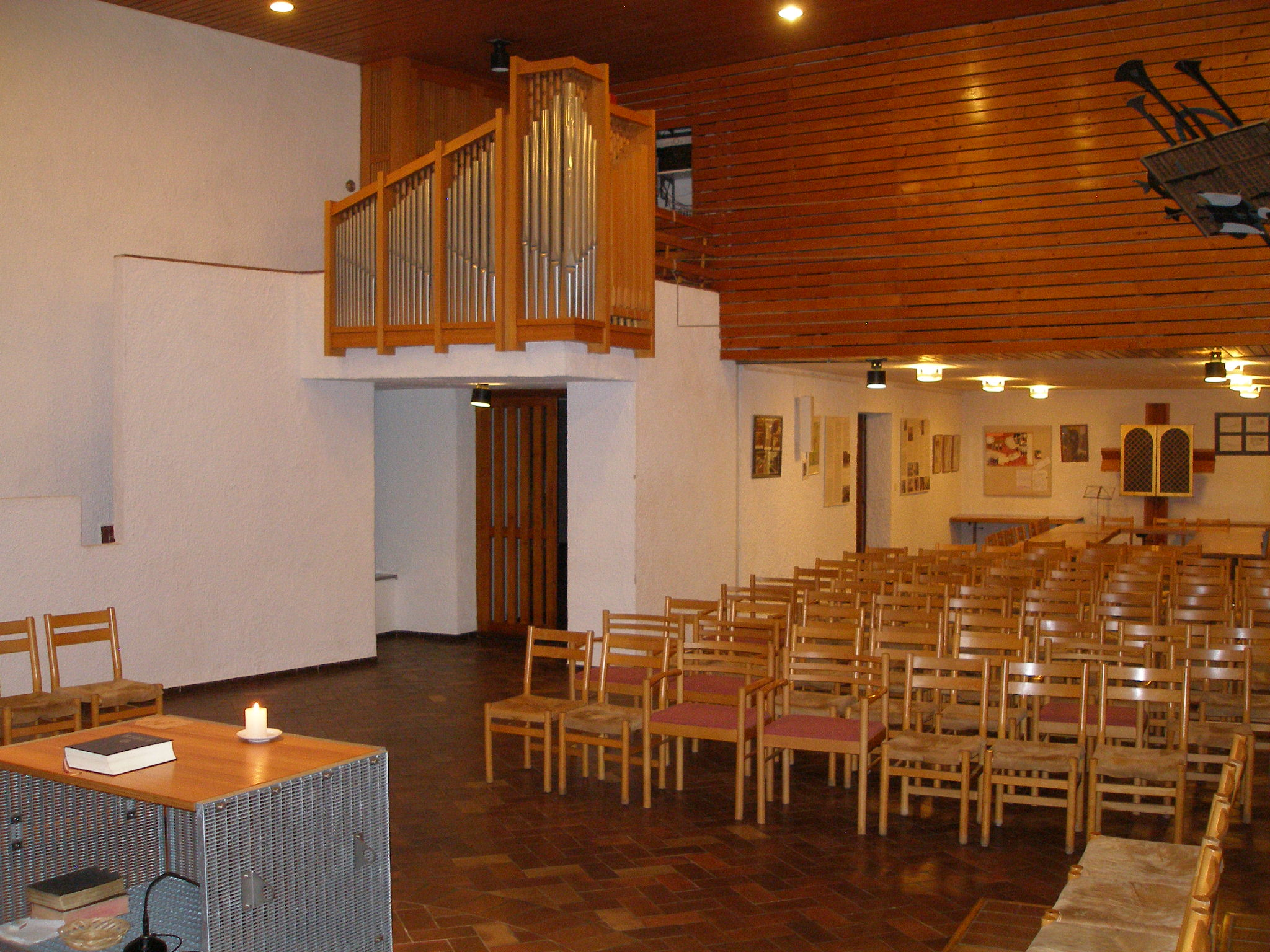 All view to interier and organ in church at Jakkob's ladder.